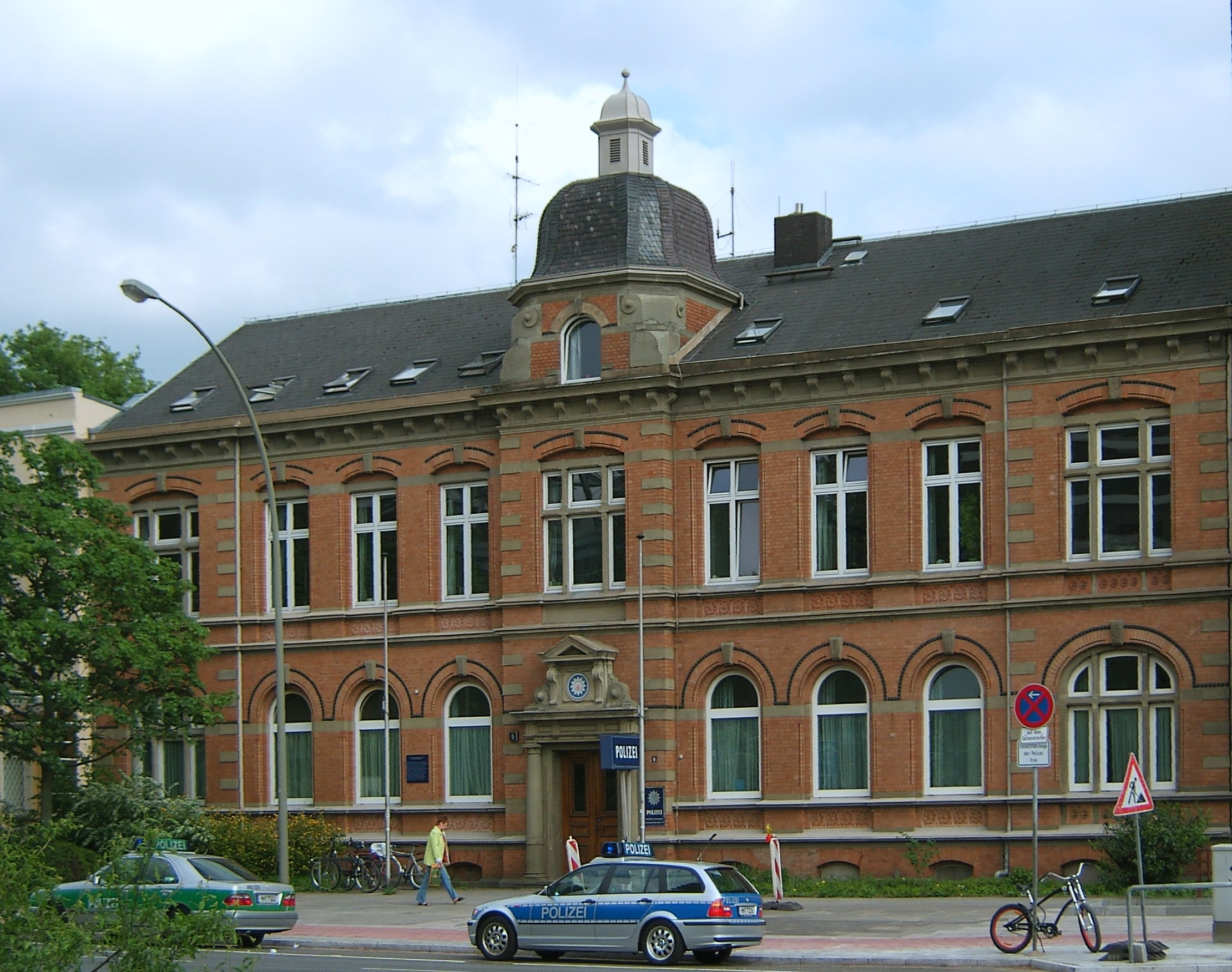 Hamburg-Mundsburg, Germany: Former police station Oberaltenallee (ehemalige Polizeiwache Oberaltenallee). Additional attics not yet added.